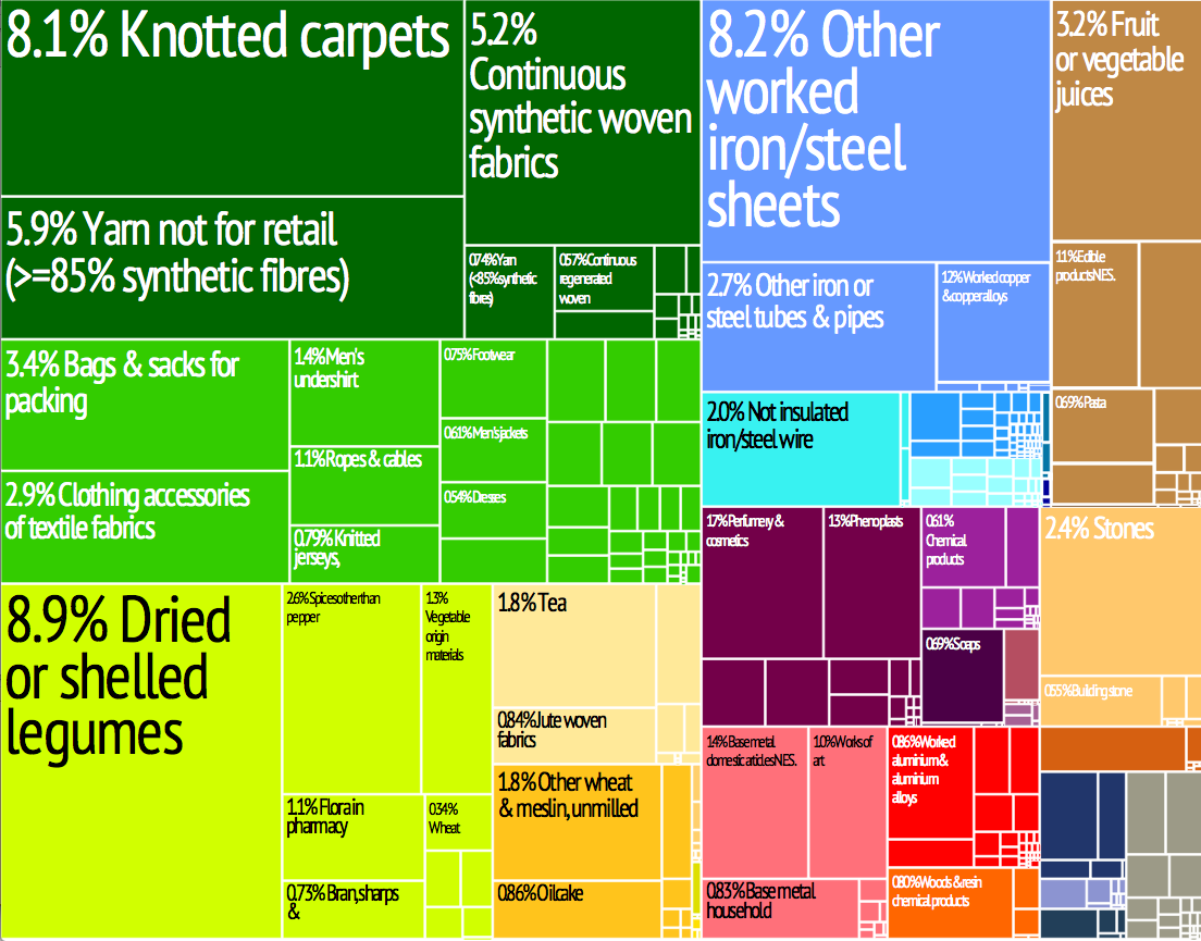 Export Trading Treemap. From MIT/Harvard Atlas of Economic Complexity